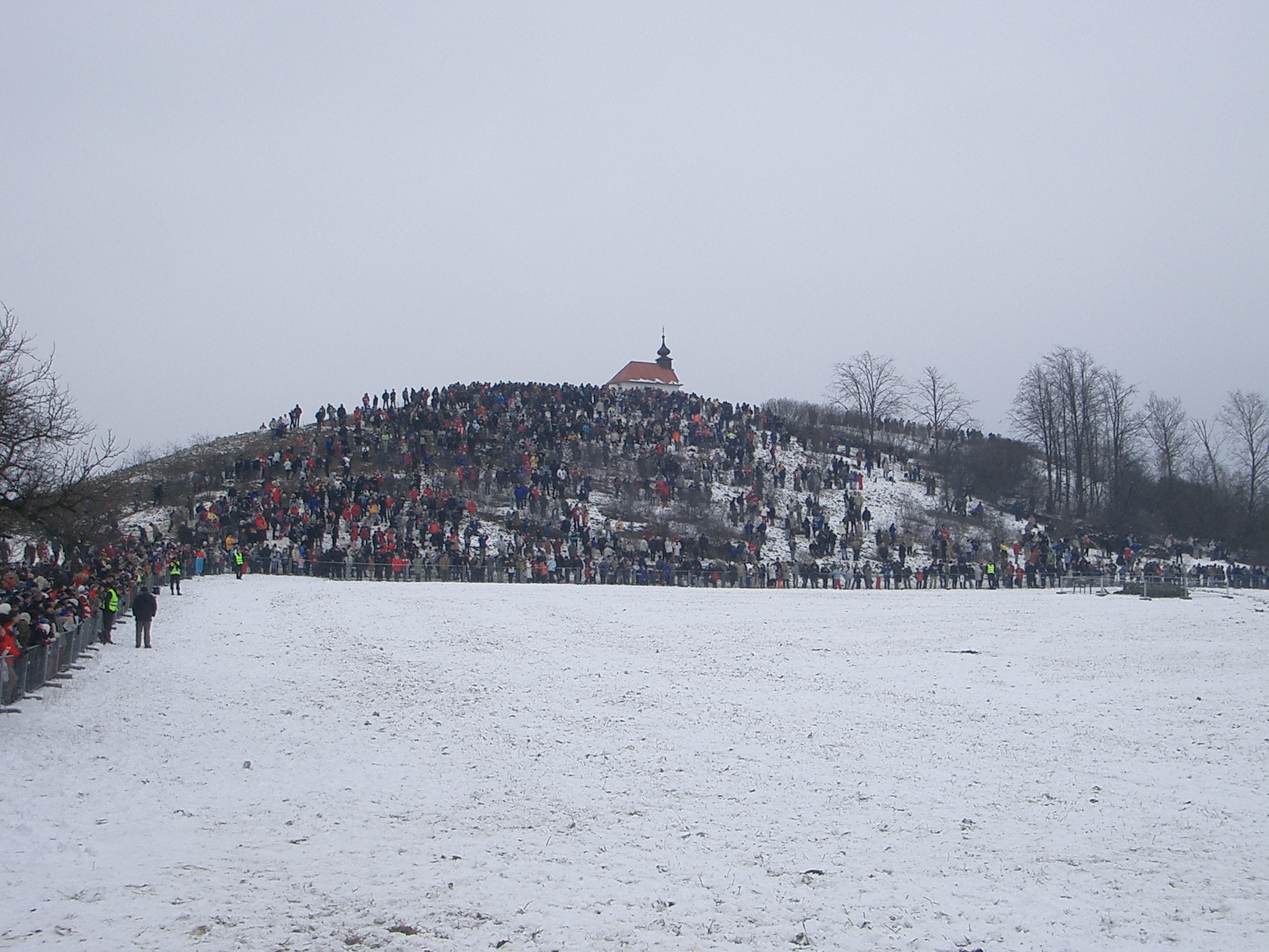 Santon Hill, a commanding position of the French army during the battle of Austerlitz. Photo taken during the 200th anniversary reenactment (thus the many visitors) Author: Jean-Claude Brunner